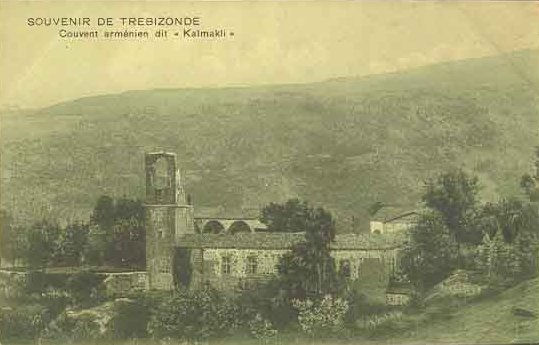 The Kaymakli postcard was produced by H. Tcholakian, Trebizond. An example appears in the book "Armenians in Turkey 100 Years Ago" with a postmark from 1913. Given that almost no Armenians from Trebizond survived the Armenian Genocide, it can safely be assumed that the creator of the image has probably been dead for over 90 years.